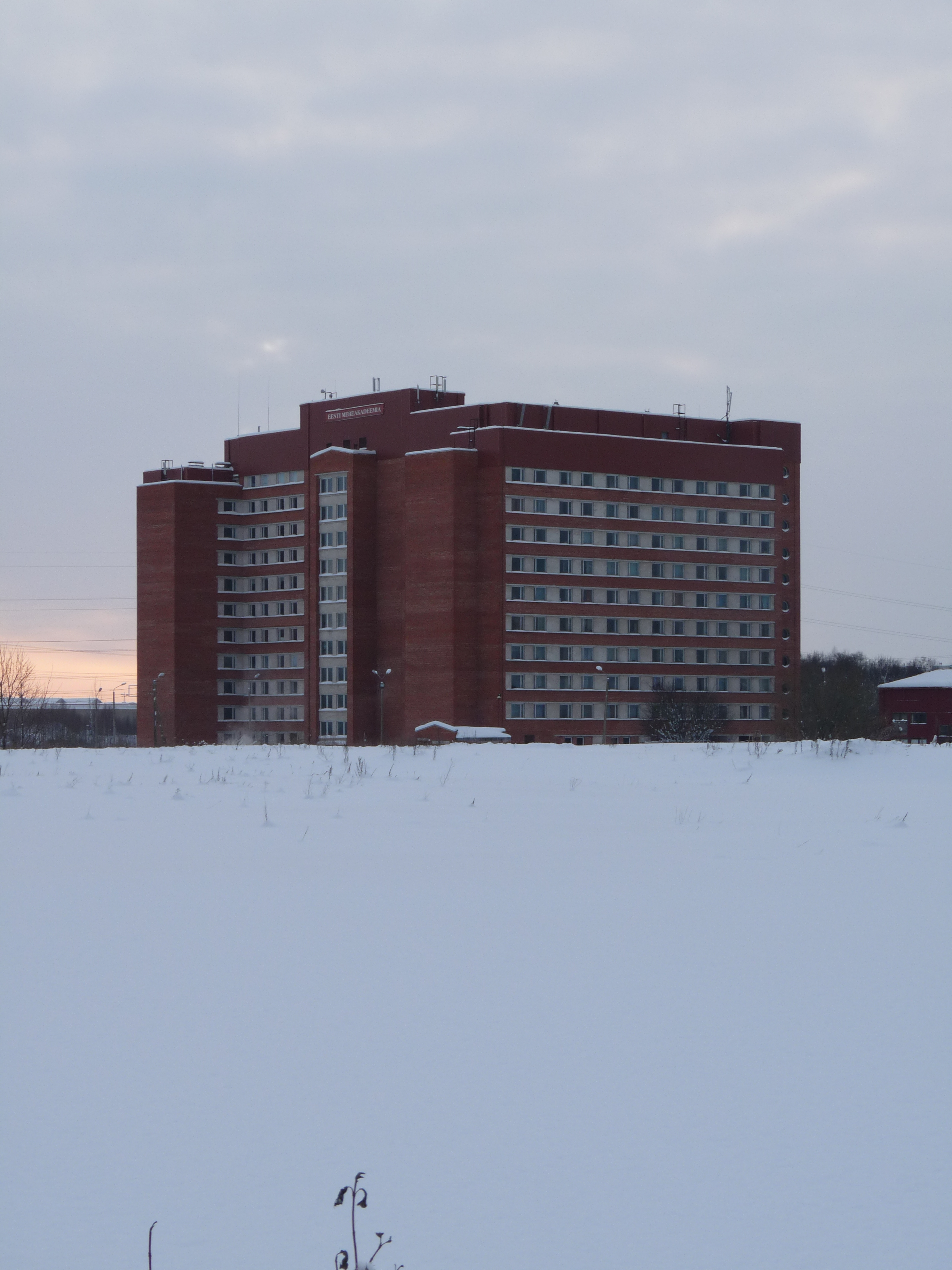 Nautical College of Estonian Maritime Academy